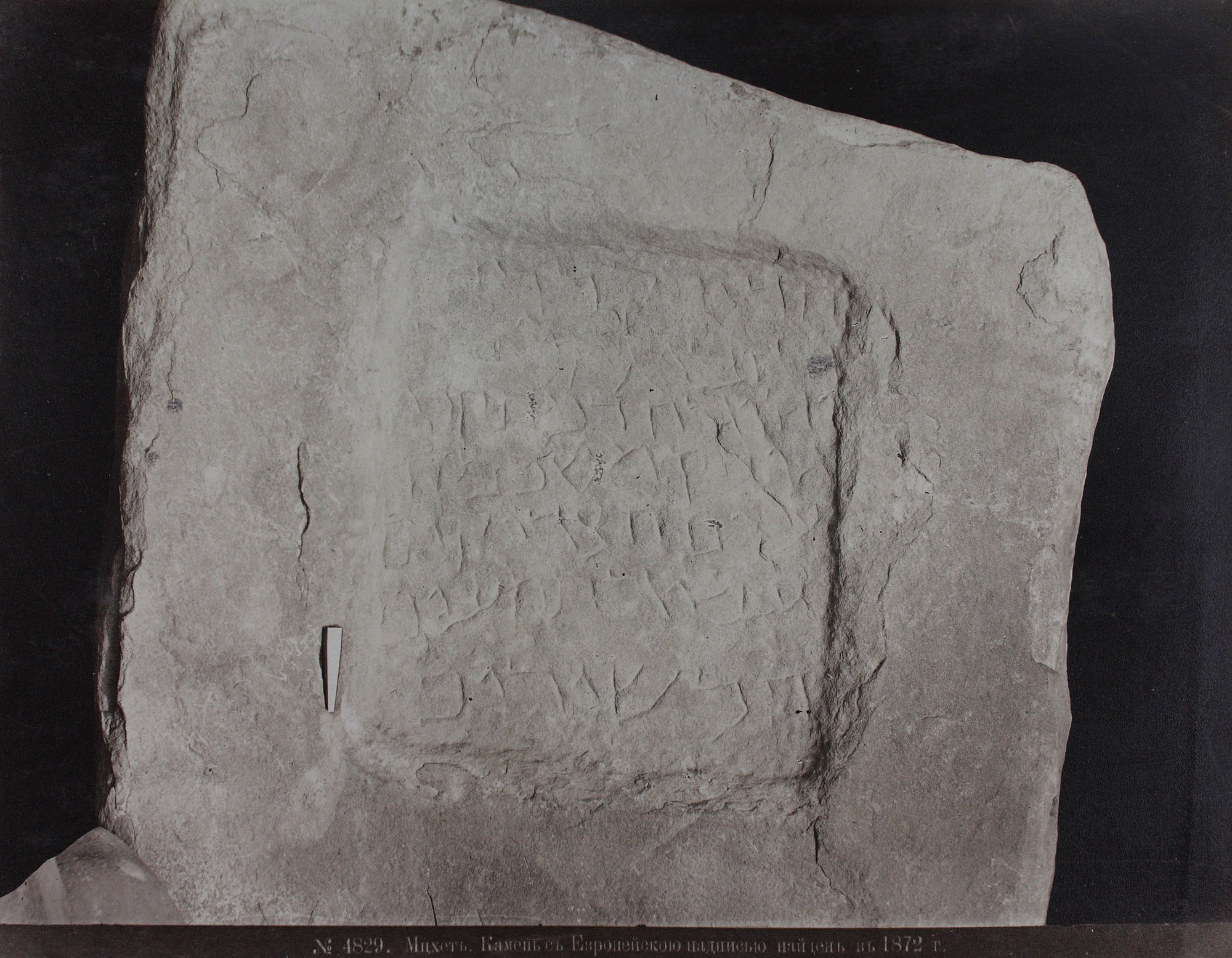 Ermakov. № 4829 Mtskhet. tombstone with jewish shrift (1872)